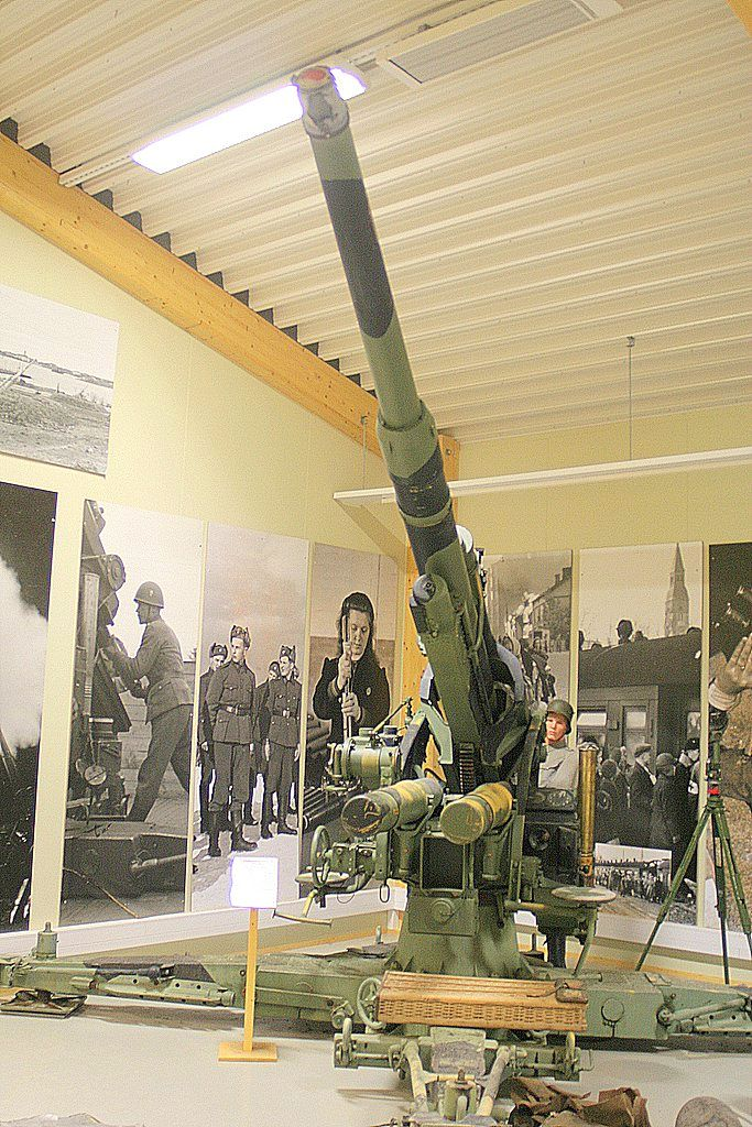 8,8-cm-Flugabwehrkanone 37 A German 88 mm anti-aircraft cannon (of year) 37 in the anti-aircraft museum of Finland in Hyrylä of Tuusula. 90 cannons were received and used by the Finnish army.